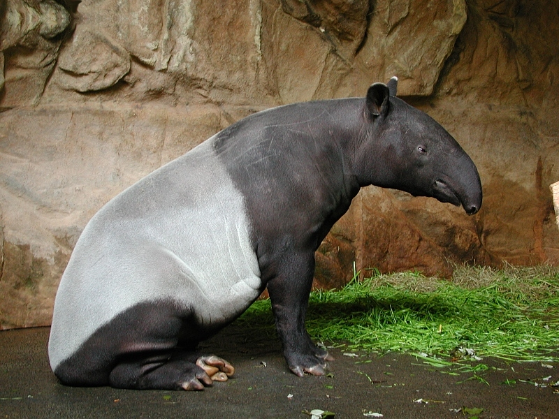 cf. Tapirus indicus, Zoological Garden, Stuttgart, Germany